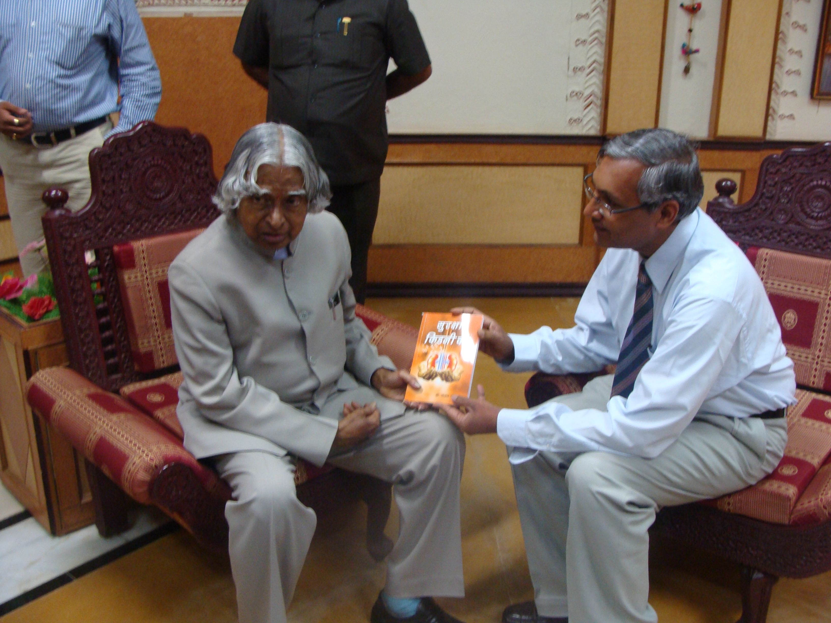 Dr APJ Abdul Kalam congratulating nephrologist, Dr SanjayPandya on the success of his mission and release of the book, Save Your Kidney.